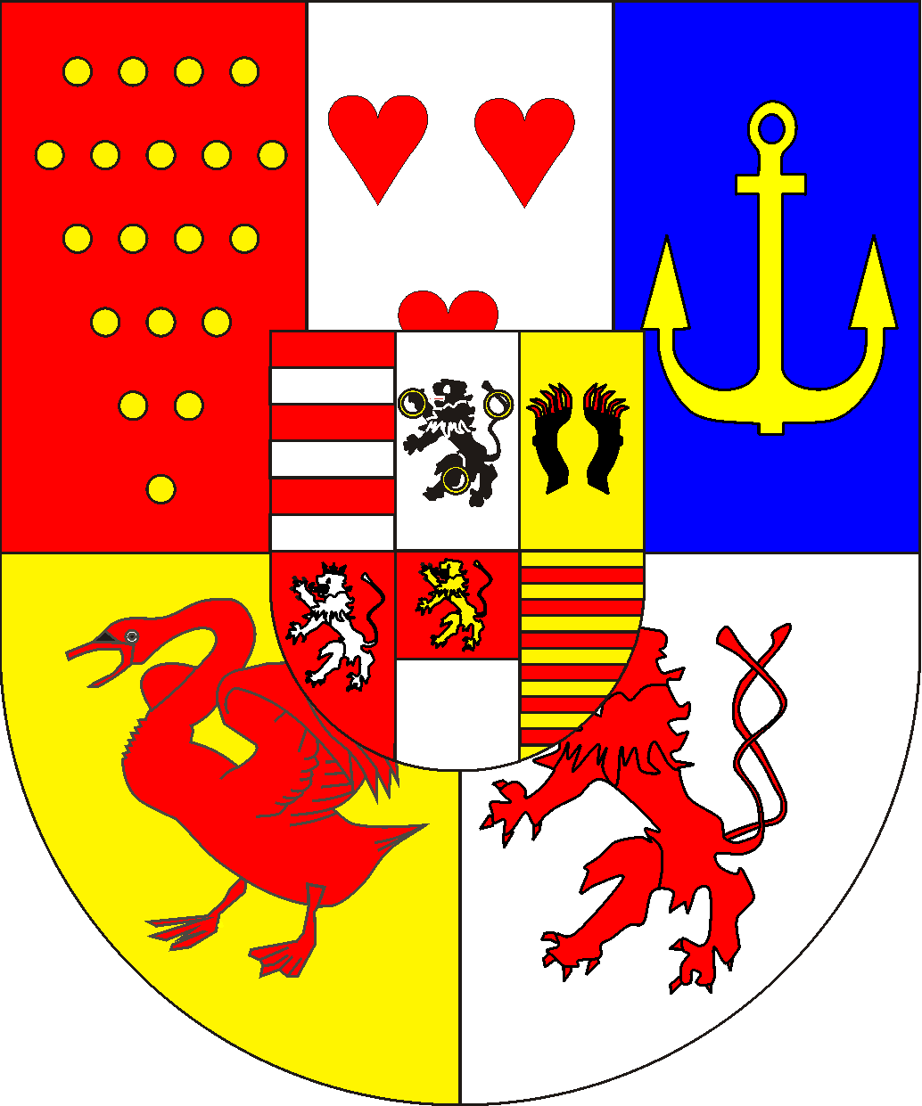 coats of arms of the counts of Bentheim; 1: county of Bentheim; 2: county of Tecklenburg; 3: county of Lingen; 4: county of Steinfurt; 5: county of Limburg; heart-1: lordship of Wevelinghofen; heart-2: lordship of Rheda; heart-3: county of Hoya; heart-4: lordship of Alpen; heart-5: lordship of Linnep; heart6: lordship of Heppendorf